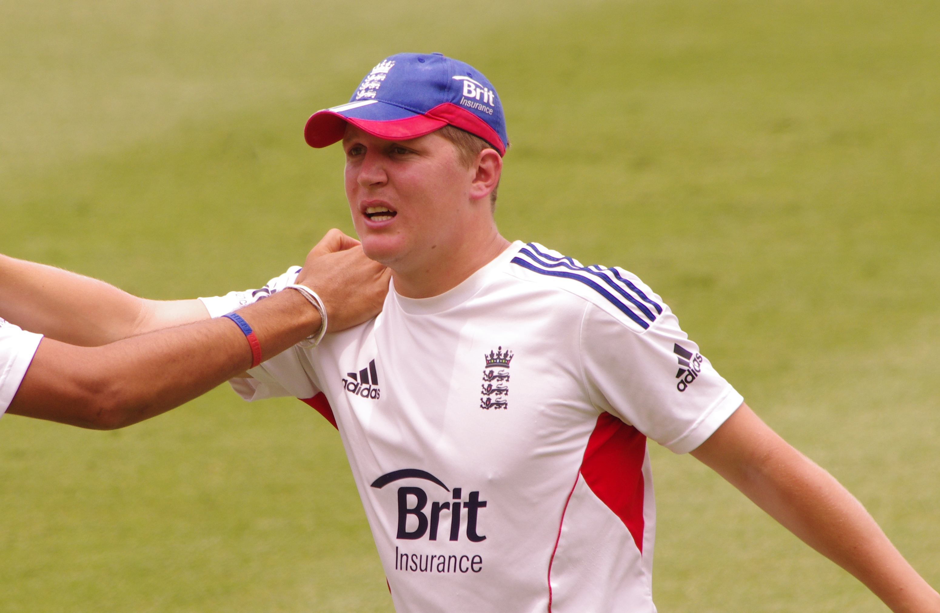 Gary Ballance in 2014